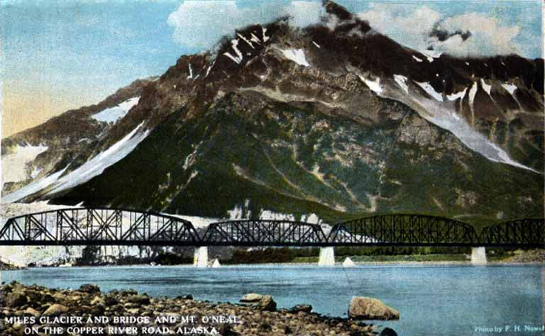 Caption on image: Miles Glacier and Bridge and MT. O'Neal on the Copper River Road Alaska. Photo by F.H. Nowell Printed on verso: 5037 Published by C.P. Johnston CO., Seattle, U.S.A. Miles Glacier and Bridge and MT. O'Neal on the Copper Road, Alaska. The bridge shown in the card is the famous one build by M. J. Henry. Some of the circumstances attending its erection have been novelized by Rex Beach in "The Iron Trail." C.R. American Art The Miles Glacier Bridge was completed in 1911. Rex Beach wrote "The Iron Trail" in 1913. The postcard is dated ca. 1913 based on this information.. Filed in: Alaska-Ice Forms-Glaciers Subjects (LCTGM): Glaciers--Alaska; Bridges--Alaska; Rivers--Alaska; Mountains--Alaska Subjects (LCSH): Miles Glacier (Alaska); Miles Glacier Bridge (Alaska); Copper River (Alaska); O'Neal, Mount (Alaska)